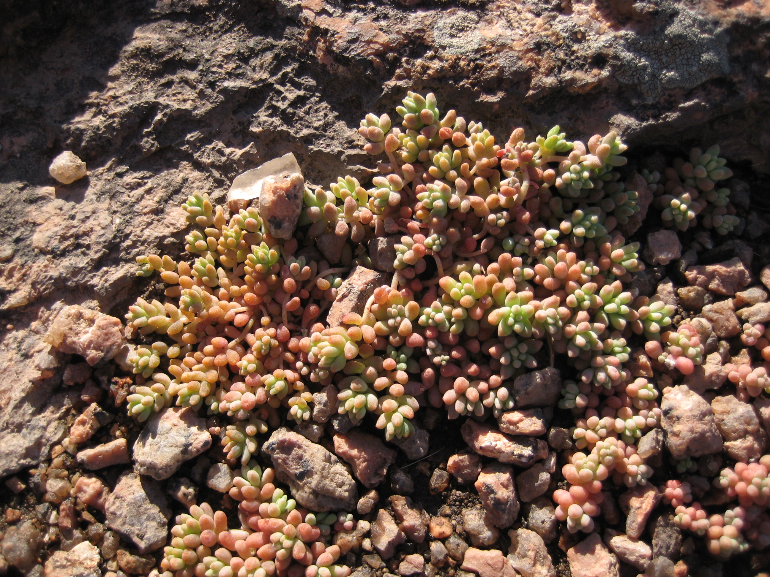 Sedum growing on top of Enchanted Rock near Fredericksburg, Texas.